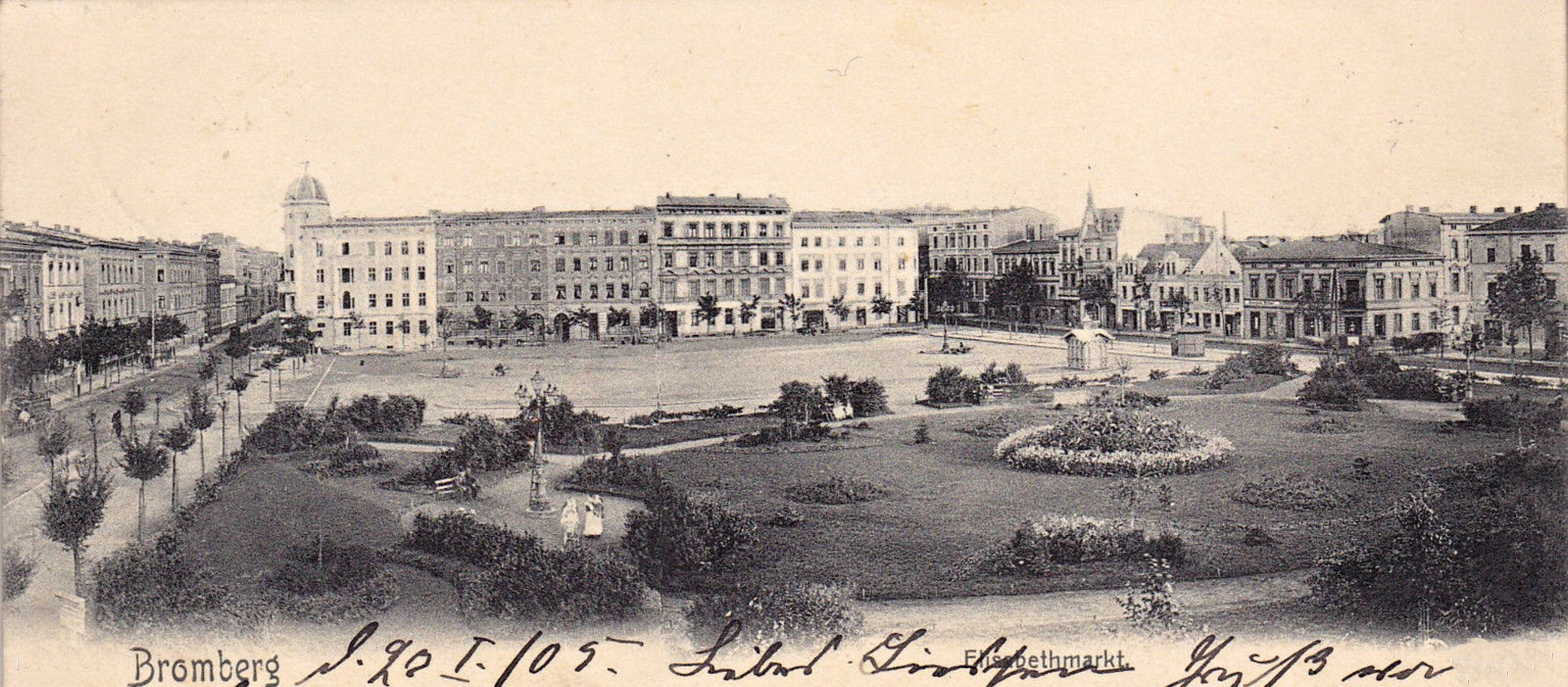 View in 1902